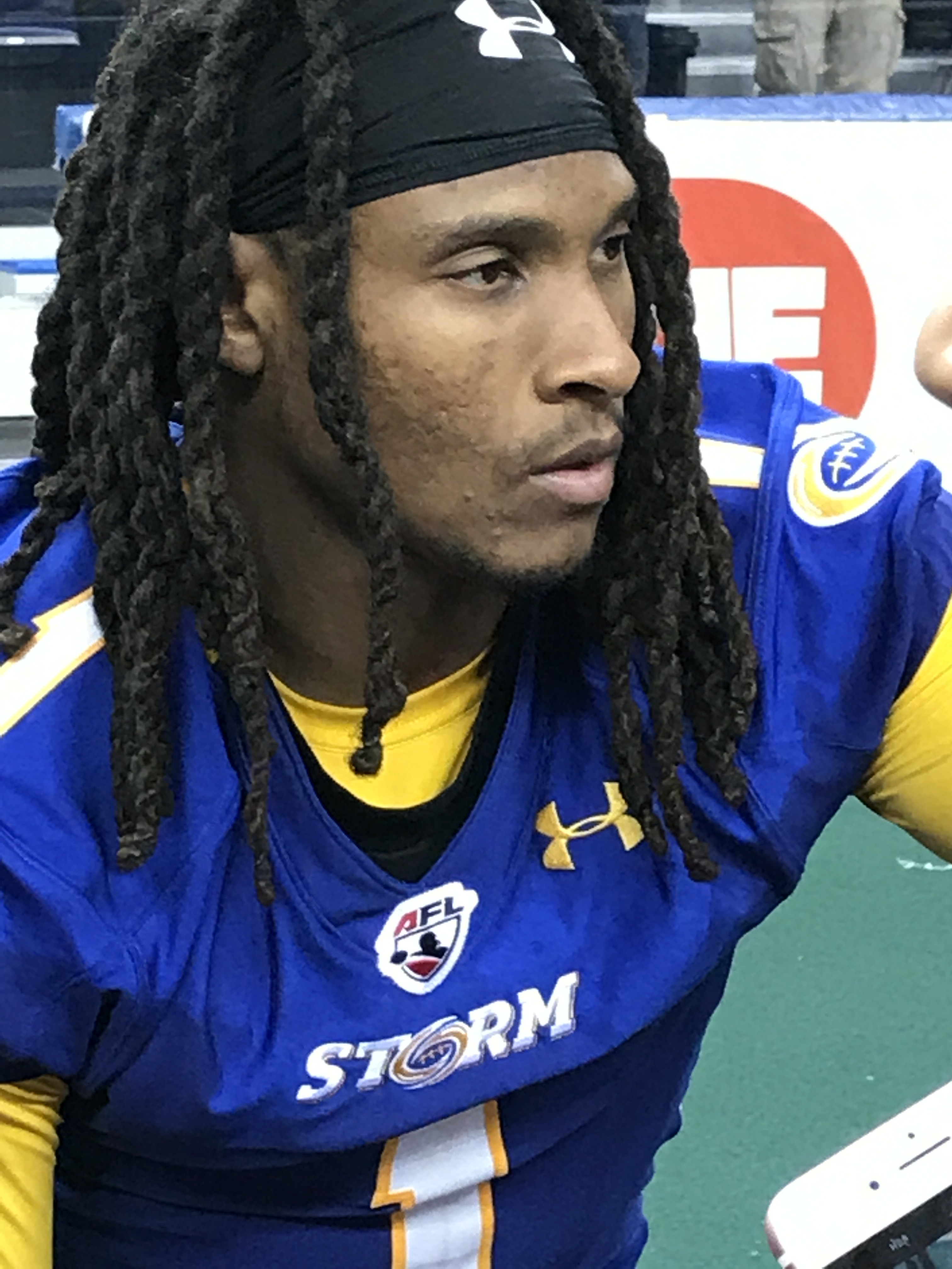 Cortez Stubbs postgame